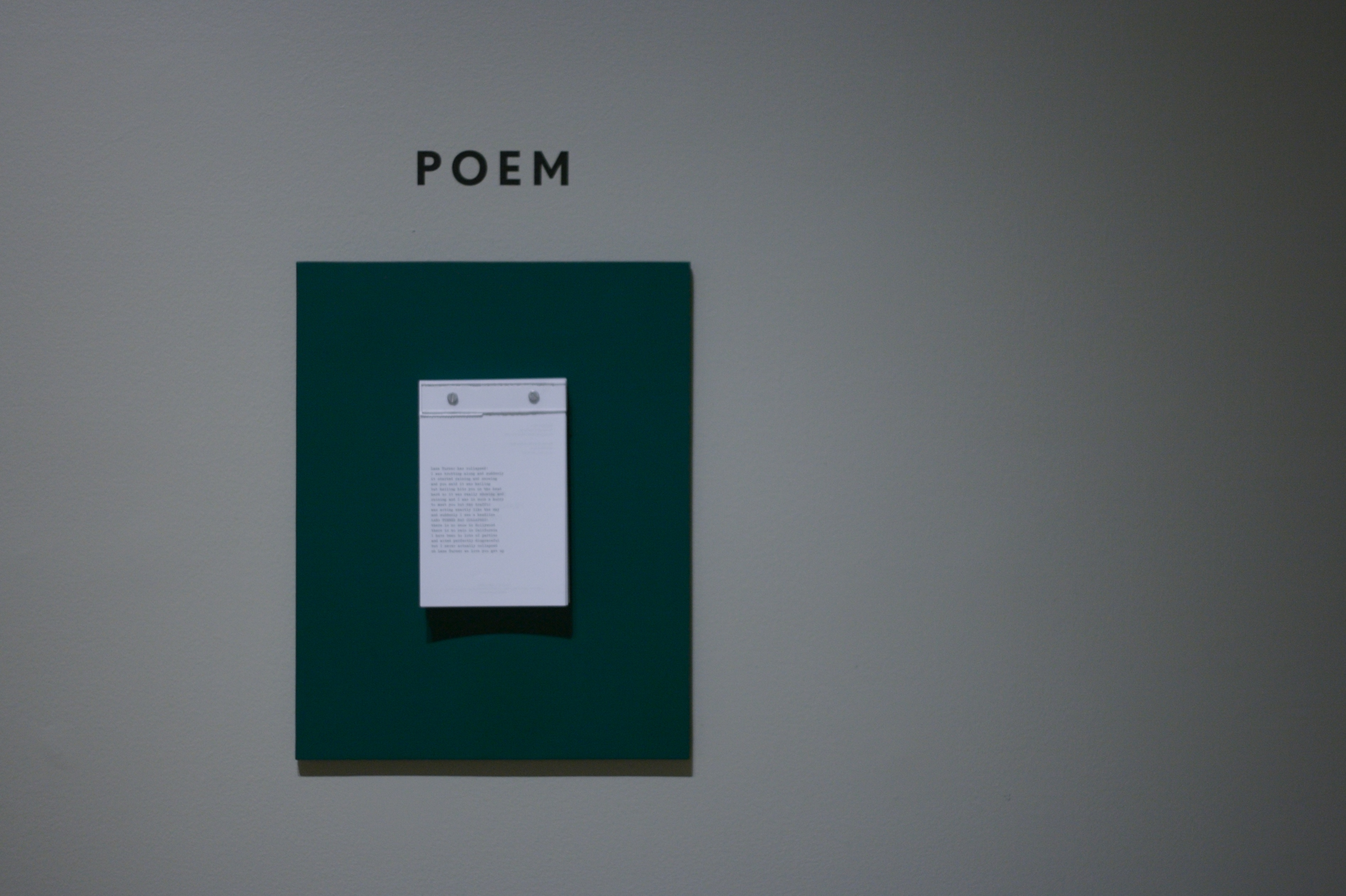 Poems by Frank O'Hara were hanging on the wall of Museum Of The City Of New York. The visitors were allowed to tear off a copy to keep for themselves. I liked this one... "Poem" Frank O'Hara, 1962 Lana Turner has collapsed! I was trotting along and suddenly it started raining and snowing and you said it was hailing but hailing hits you on the head hard so it was really snowing and raining and I was in such a hurry to meet you but the traffic was acting exactly like the sky and suddenly I see the headline LANA TURNED HAS COLLAPSED! there is no snow in Hollywood there is no rain in California I have been to lots of parties and acted perfectly disgraceful but I never actually collapsed oh Lana Turner we love you get up